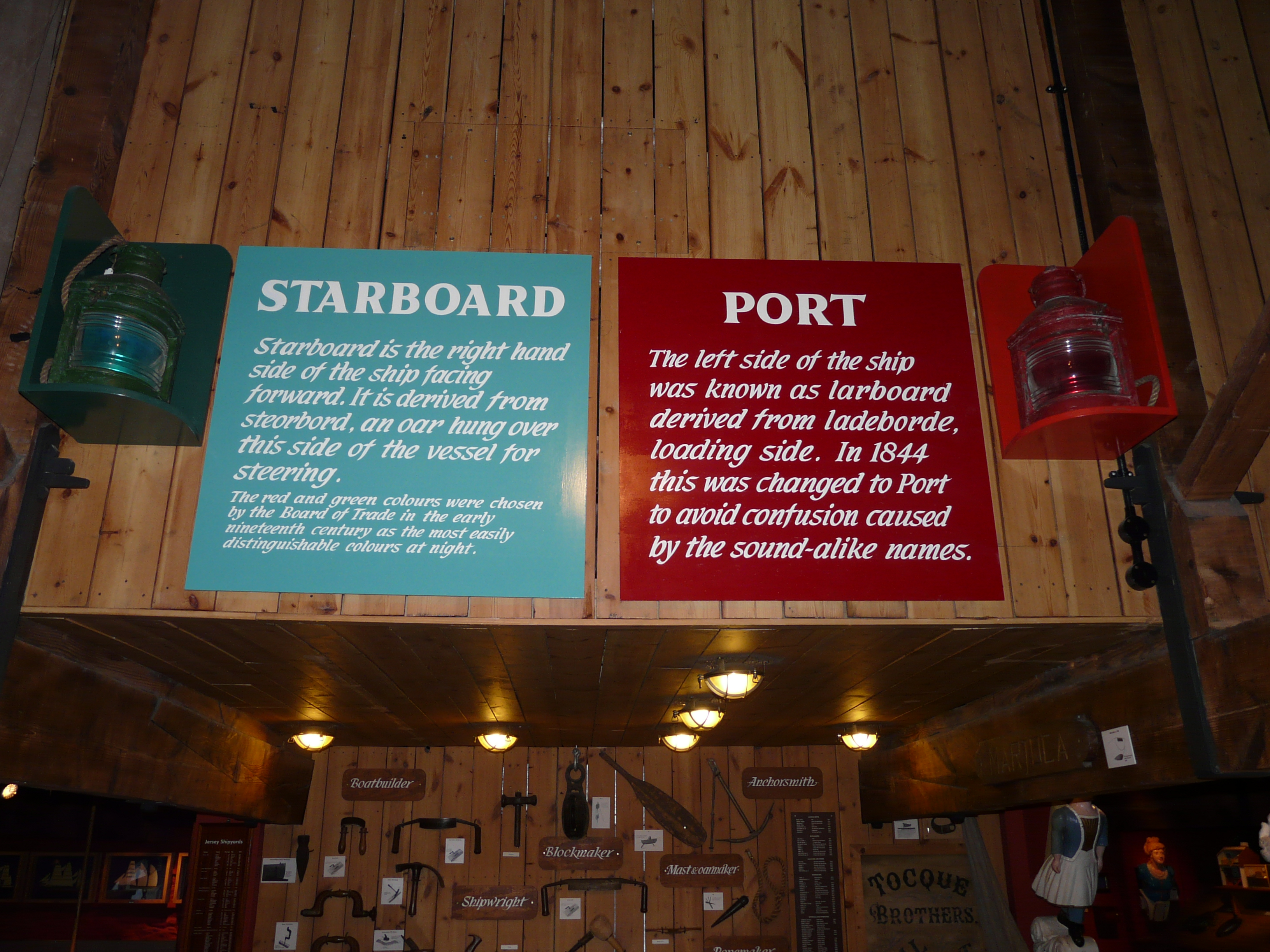 Port side and starboard side